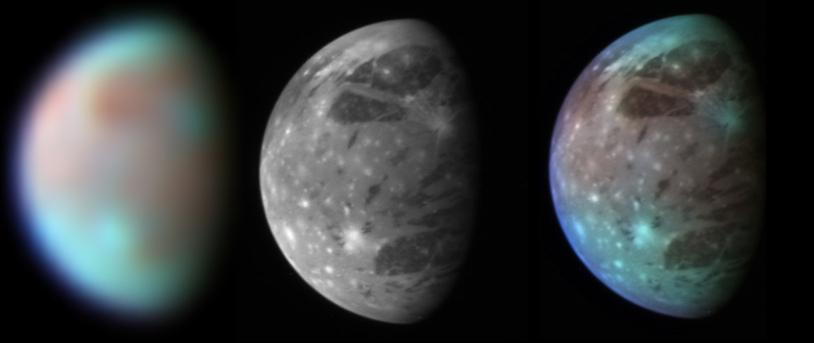 This montage compares New Horizons' best views of Ganymede, Jupiter's largest moon, gathered with the spacecraft's Long Range Reconnaissance Imager (LORRI) and its infrared spectrometer, the Linear Etalon Imaging Spectral Array (LEISA). LEISA observes its targets in more than 200 separate wavelengths of infrared light, allowing detailed analysis of their surface composition. The LEISA image shown here combines just three of these wavelengths -- 1.3, 1.8 and 2.0 micrometers -- to highlight differences in composition across Ganymede's surface. Blue colors represent relatively clean water ice, while brown colors show regions contaminated by dark material. The right panel combines the high-resolution grayscale LORRI image with the color-coded compositional information from the LEISA image, producing a picture that combines the best of both data sets. The LEISA and LORRI images were taken at 9:48 and 10:01 Universal Time, respectively, on February 27, 2007, from a range of 3.5 million kilometers (2.2 million miles). The longitude of the disk center is 38 degrees west. With a diameter of 5,268 kilometers (3,273 miles), Ganymede is the largest satellite in the solar system.